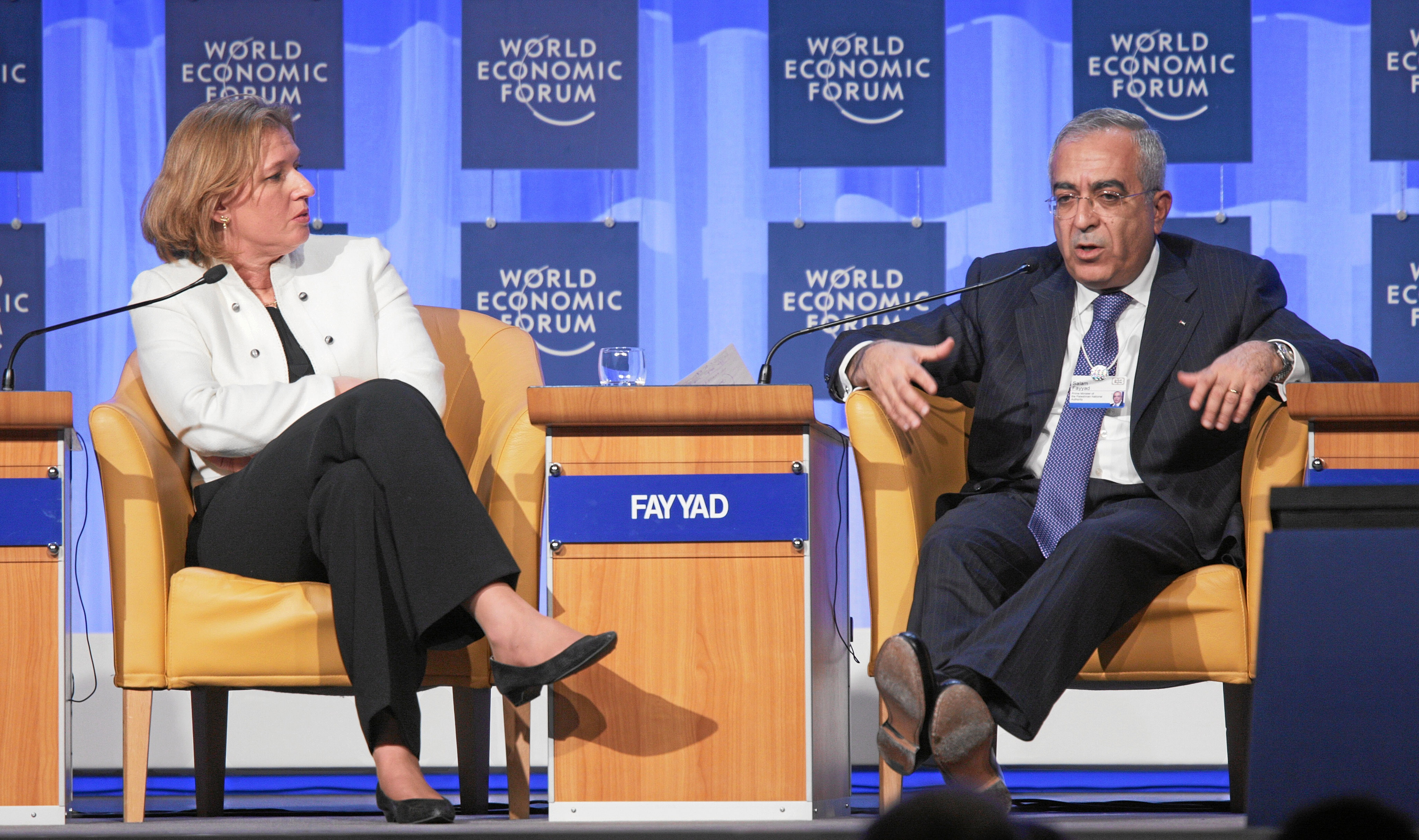 Palestinian Prime Minister Salam Fayyad with Israeli Foreign Minister Tzipi Livni at the World Economic Forum in Davos, Switzerland, January 24, 2008